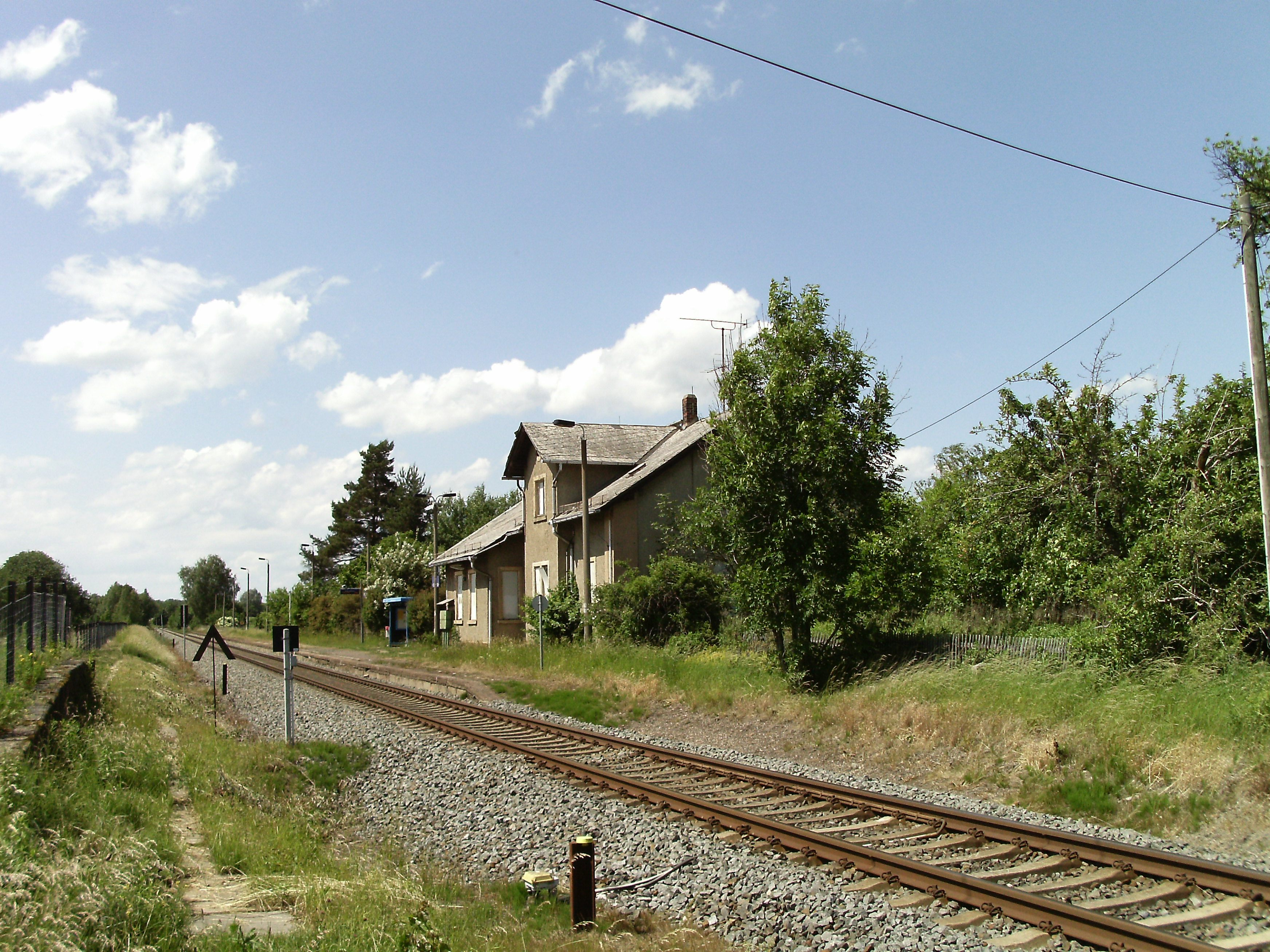 Hopfgarten station (Frohburg, Leipzig district, Saxony) at the Leipzig-Geithain railway line